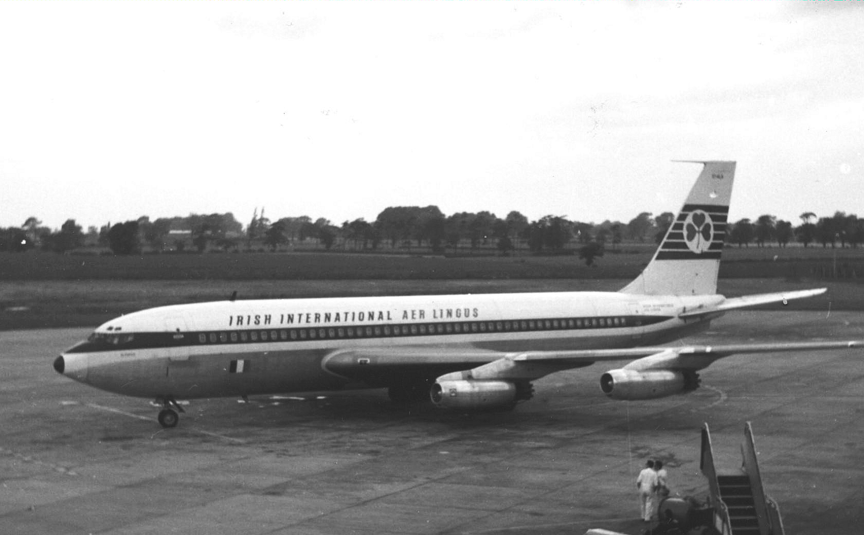 Boeing 720-048 EI-ALA of Aer Lingus